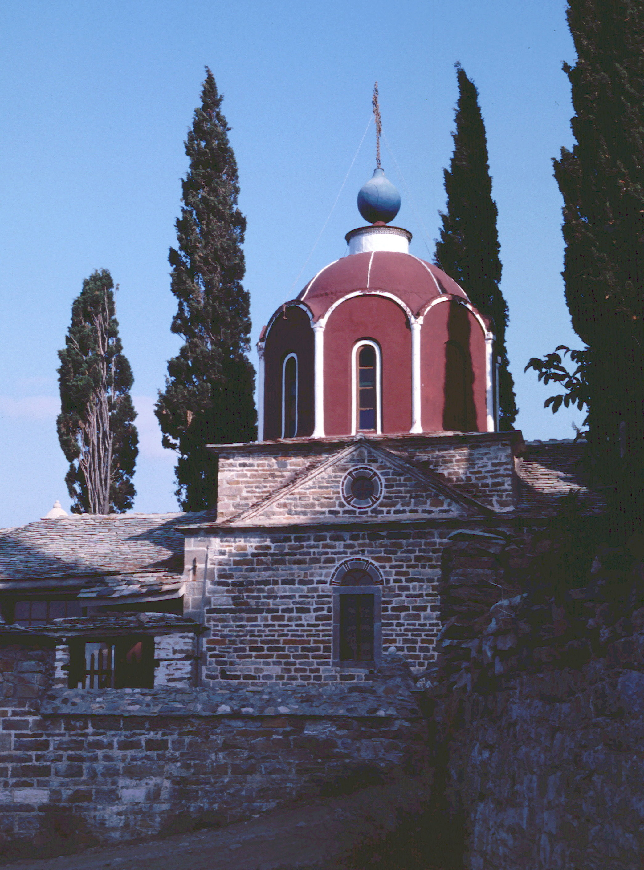 Chapel beside the monastery of Dochiariou